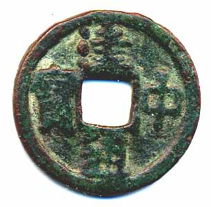 TANG DYNASTY 618 - 907 AD H 14 . 1 Kai Yuan, Early Wu de Kai Yuan, with Jing (Central part of Kai) above inner rim. Grey color from high tin content. 24.6mm, 4.176g HG283/6, Doo-Ty1 AVF H 14 . 101 Qian Yuan zhong bao Emp. Su Zong, 756-62 AD, 10 Cash, minted 758-59 AD, 29.3mm, about 7-8.7gm, salvage from a ship found in a Shaanxi river. Some sellers still asking $35 for this one. S352 Never circulated, nicely cleaned, they will retone in time. Average weight pieces $6 Each/5+; Single 8+ gm. specimens: H 14 . 105b Qian Yuan zhong bao Value 50, light version 10.5gm Scarcer than heavy version VF H 14 . 130 Da Li yuan bao Emp. Dai Zong, 766-79 Cast in Kuche, Xinjiang. 23mm, 3.266g FFD703 H303/5 VF, green H 14 . 133A Jian Zhong tong bao Emp. De Zong, 780-83 Small characters variety. Cast in Kuche, Xinjiang. 22mm, 2.696g FD705 H305/1 F, rough H 14 . 133 Jian Zhong tong bao Emp. De Zong, 780-83 Large characters variety. Cast in Kuche, Xinjiang. 22mm, 2.696g FFD704 H305/3 AVF H 14 . 140 De Yi yuan bao Tang Rebel Shi Siming, 758-61 36 mm, 12.146g Plain reverse, scarcer than with crescent HG315/1, S407v, [FN$876 presumably for commonere crescent type] VF / rough reverse H 14 . 147 Shun Tian yuan bao Tang Rebel Shi Siming, 758-61 Rev: crescent above 36.0 mm, 18.030 g FFD752, S409, HG318/1, [FN$146] AVF .